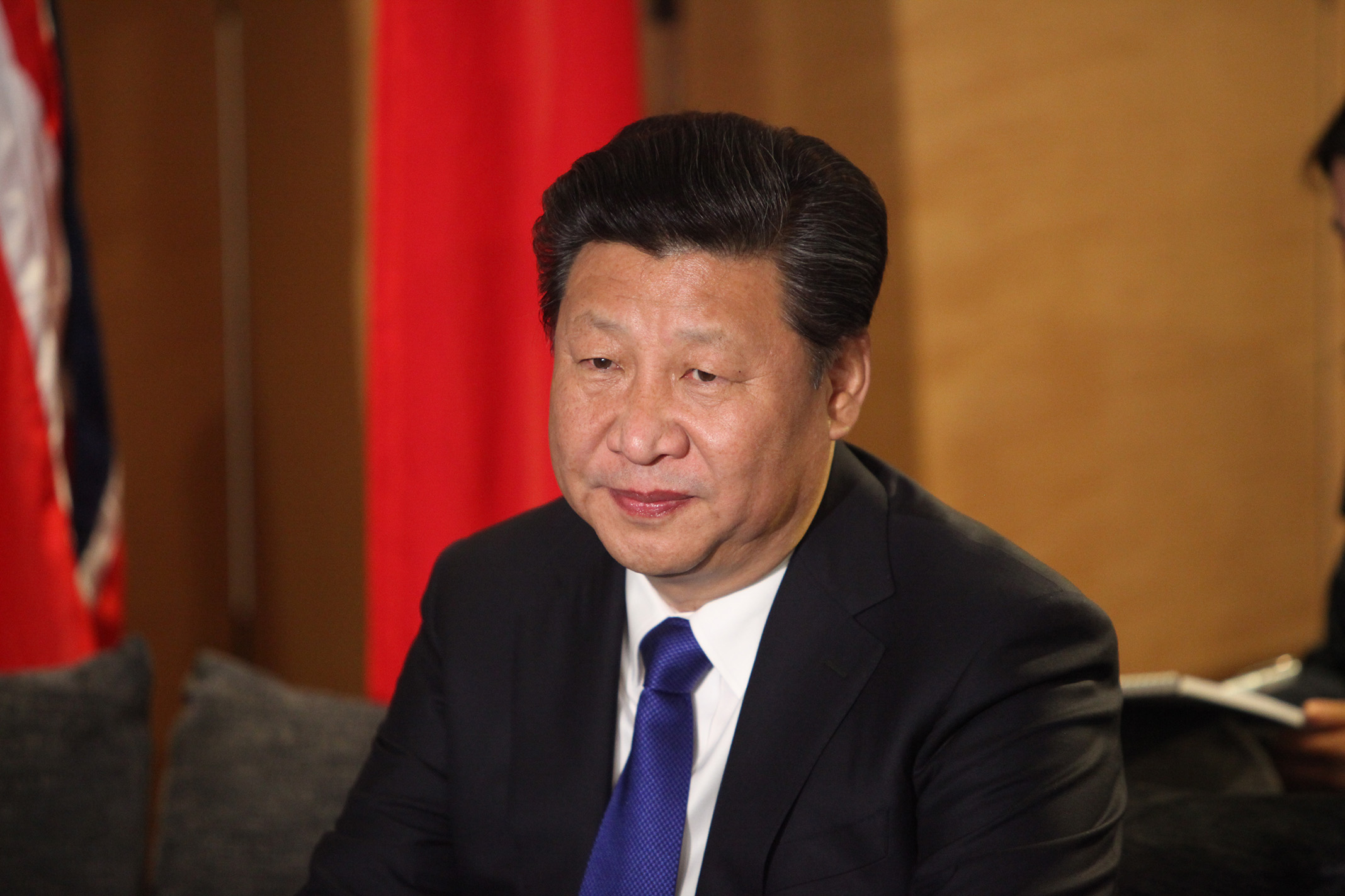 President of China, Xi Jinping arrives in London, 19 October 2015.